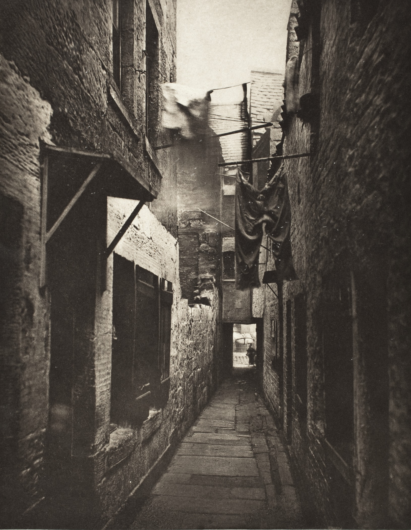 Scotland, 1868, printed 1900 Photographs Photogravure The Marjorie and Leonard Vernon Collection, gift of The Annenberg Foundation, acquired from Carol Vernon and Robert Turbin (M.2008.40.98.8) Photography